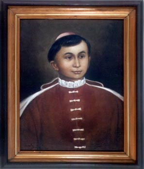 Fernando Montero was the 7th Archbishop of Manila. The secular priest was a native of Burgos, Spain. Became archbishop on May 20, 1644 on his way to the islands. He died in Pila, Laguna while on his way to Manila.